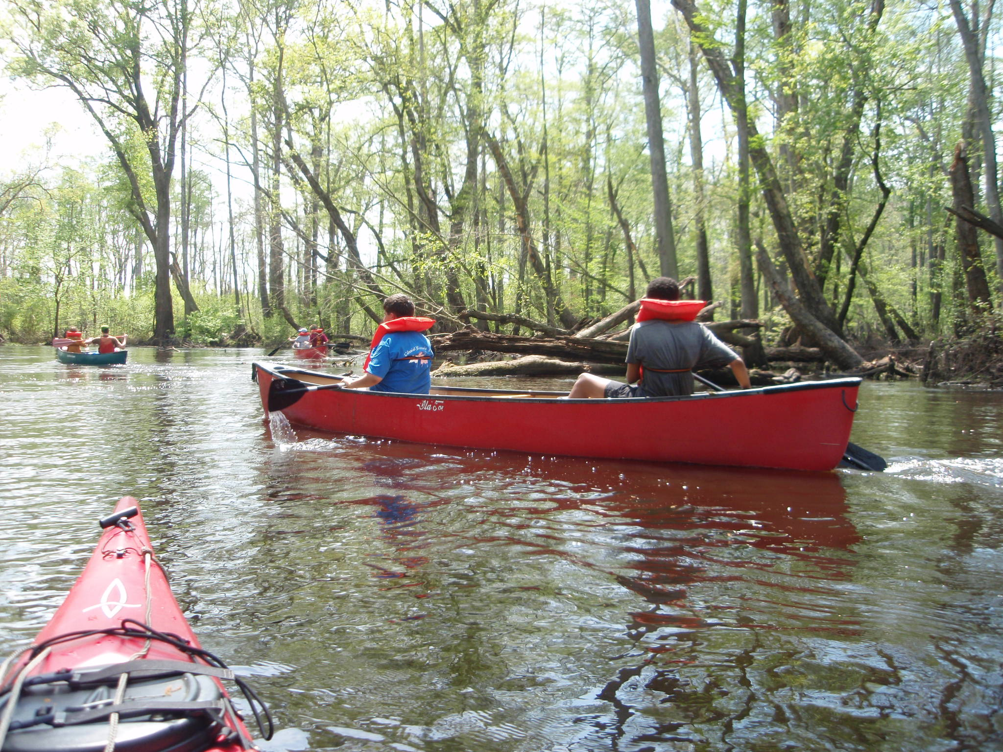 Boy Scouts canoeing on the Blackwater River, Virginia.